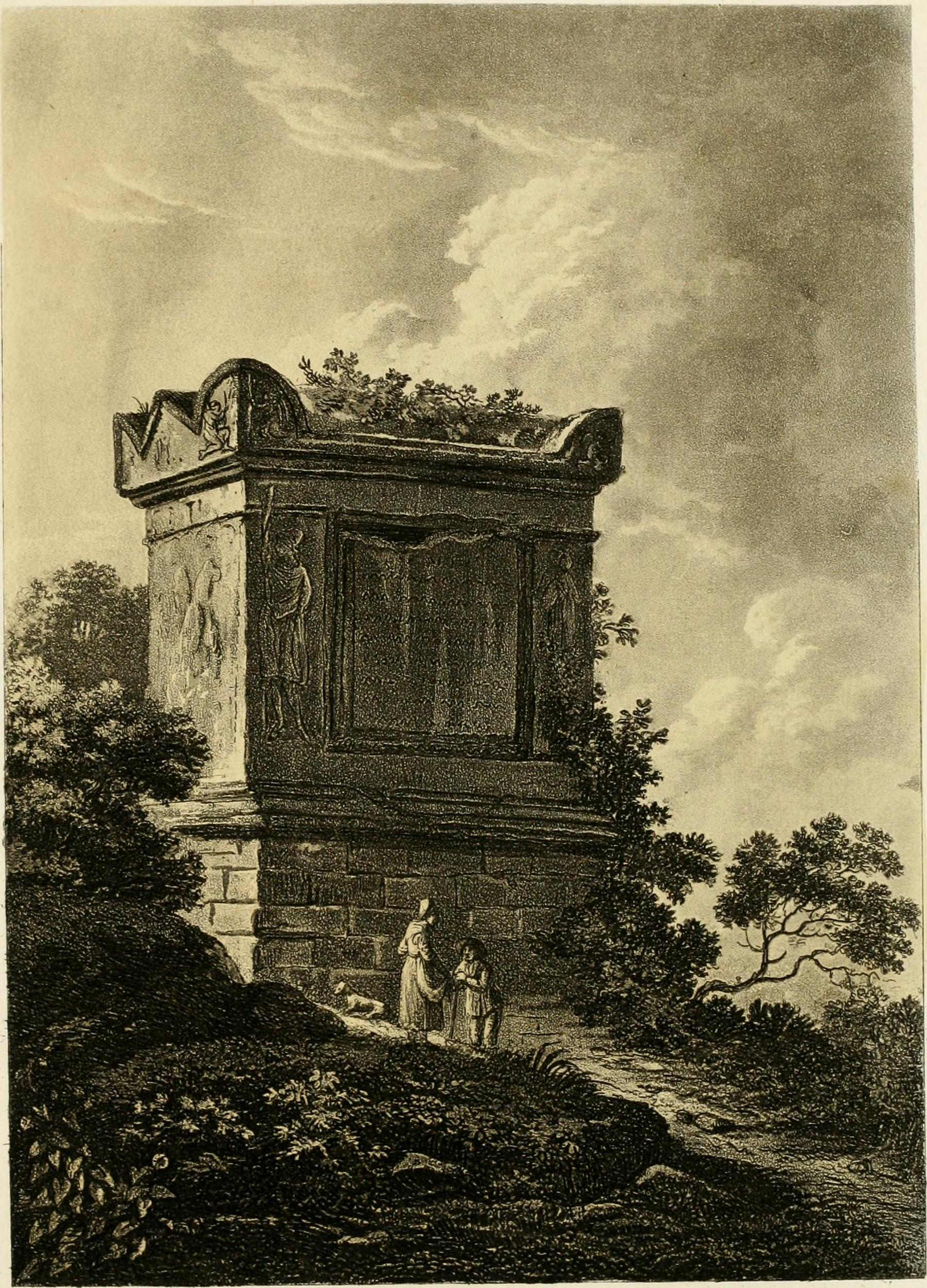 Title: A select collection of views and ruins in Rome and its vicinity : recently executed from drawings made upon the spot Year: 1815 (1810s) Authors: Mérigot, J Subjects: Publisher: London : Sold by Messrs. Robinsons, Mr. White, Mr. Faulder, and Mr. Evans Text Appearing Before Image: lisarius, upon the ruins of the oldbridge ; and it was rebuilt by Pope Nicolas V. This bridge is famous for the victory which Constantine here ob-tained over the tyrant Maxentius. PONTE MOLLE. x^AUL EMILE, censeur, fit bâtir ce pont, et lui donna son nom ; ilprit ensuite celui de Milvius. La tour fut élevée par Belisaïre, sur les ruines de lancien, et il futrebâti par le Pape Nicolas V. Ce pont est fameux par la victoire de Constantin sur le tyranMaxence. TOMB OF NERO. X HIS. monument, known by the appellation of Neros tomb, is intruth that of Caius Vibius Marianus, the proconsul ; it is at present theonly one of the ornaments of the Flaminian way which continues toattract the attention of the traveller on his arrival at Rome. TOMBEAU DE NERON. v^E monument, connu sous le nom de tombeau de Néron, nest eneiFet que celui du proconsul C. Vibius Marianus ; cest de tous ceux quiornoient la voie Flaminienne, le seul qui frappe aujourdhui les regardsdu voyageur a son arrivée a Rome. m Text Appearing After Image: Tomb of î^ero , =2^,^^. £iU;^ ^^rô-. .^^ iy. .fcJLy^. ^ ?i?rf ^â-^^^Jcec, ^M£irv^-uL. 74^ ,A^^o^ dL^ --^r^ -s ^